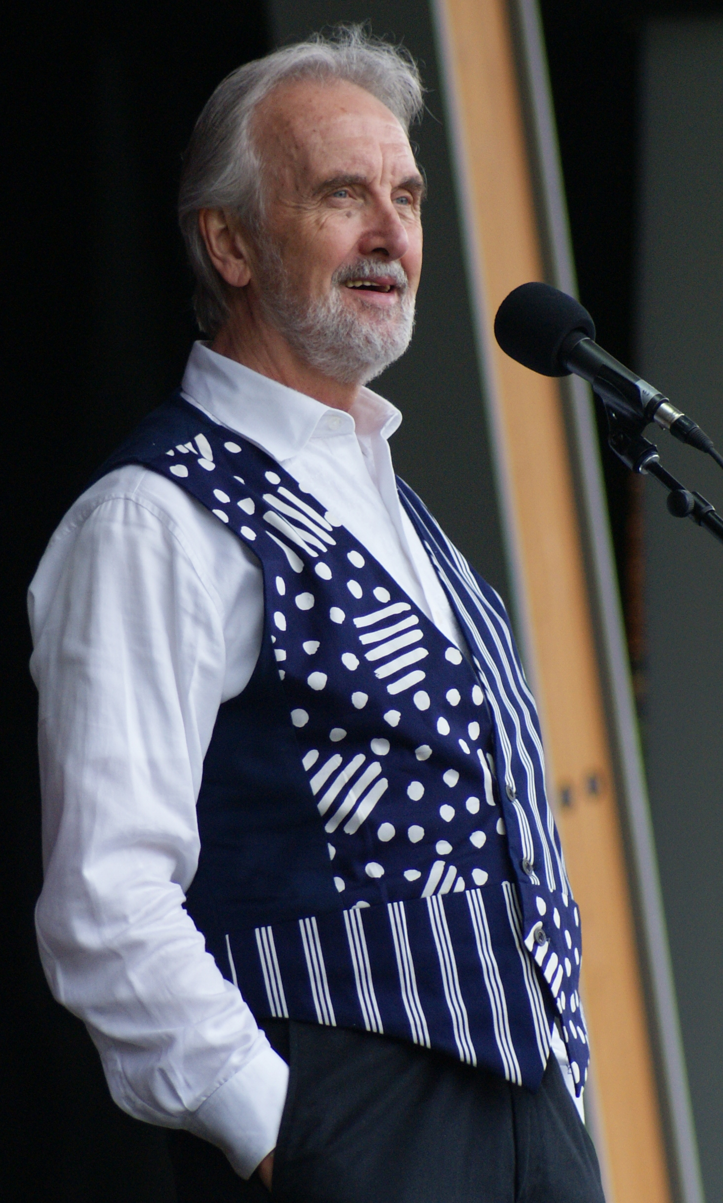 Fred Penner performing in Whister, Canada in 2012